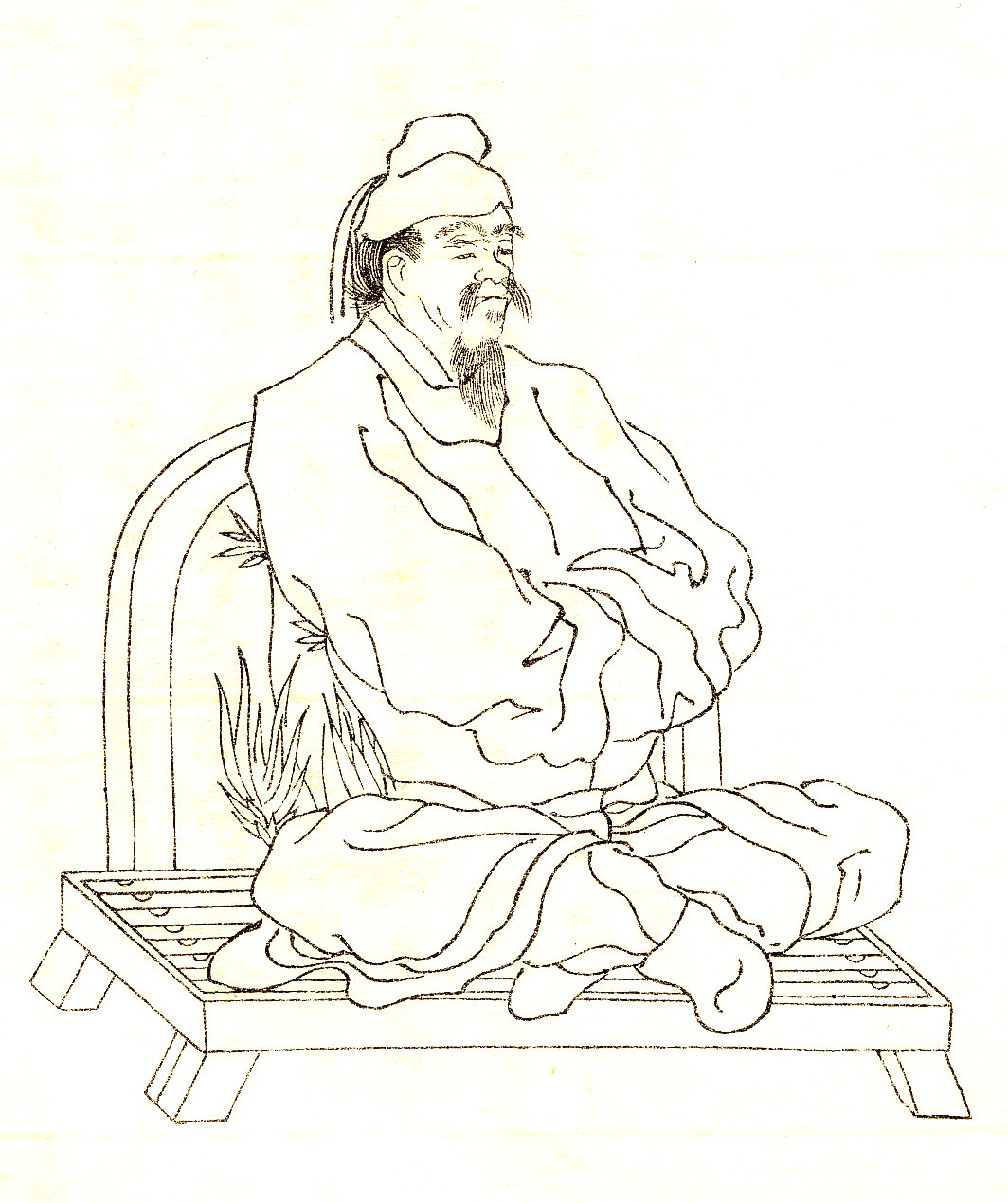 Otomo no Muroya（大伴室屋）was a high-ranking clan head position of the ancient Japanese Yamato state. This picture was drawn by Kikuchi Yosai（菊池容斎） who was a painter in Japan.